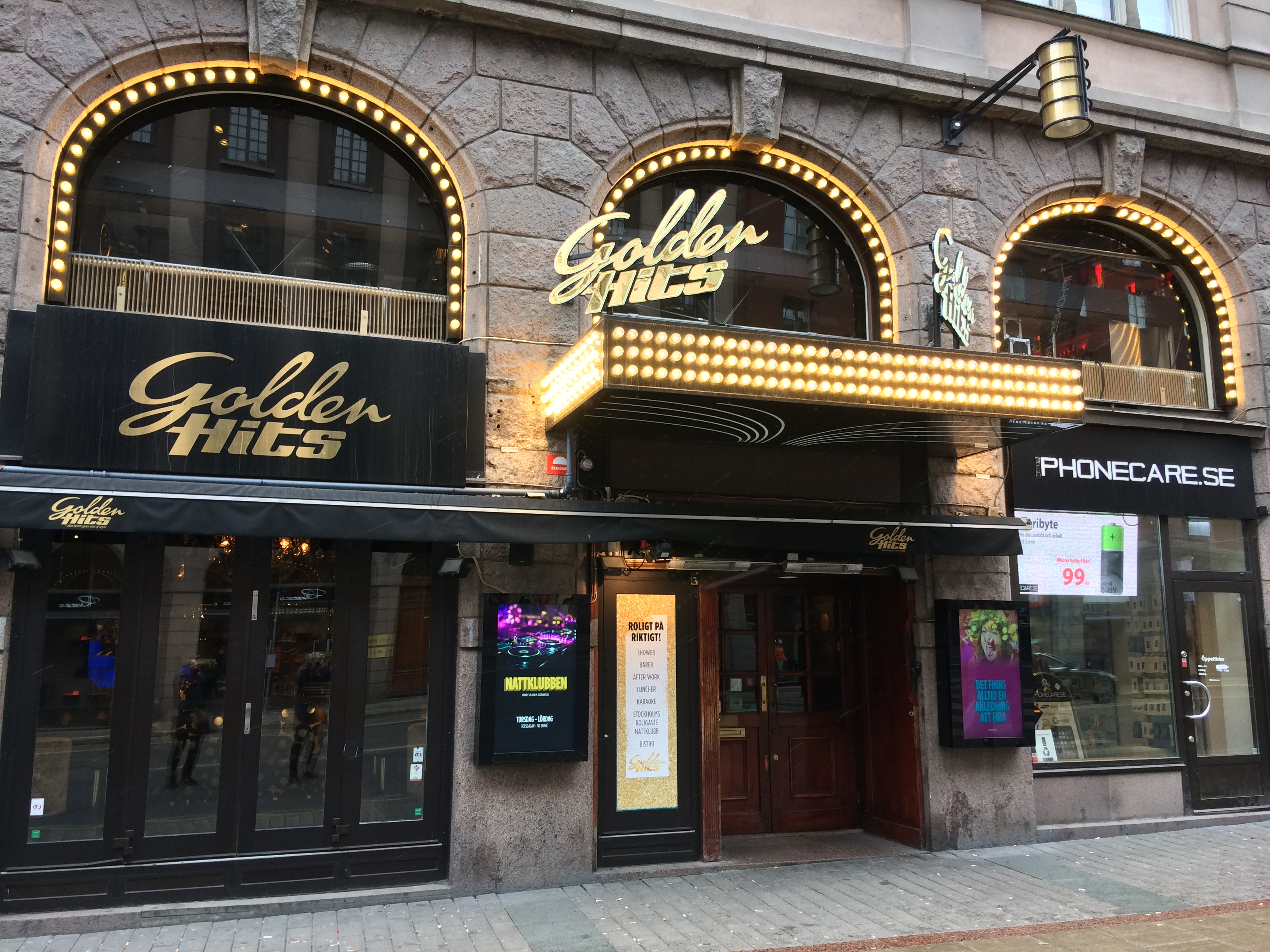 Restaurant and night club Golden Hits on Kungsgatan 29, Stockholm, in February 2018.